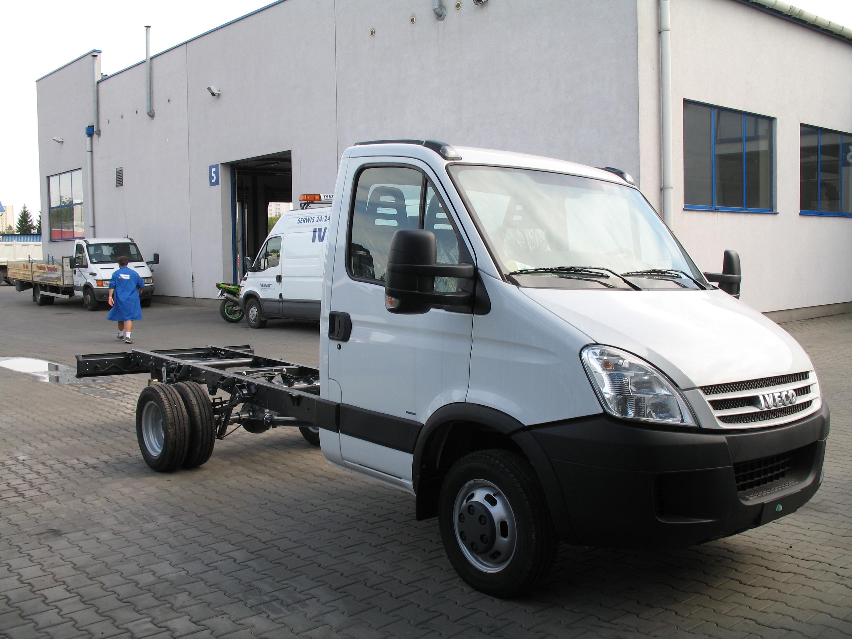 Iveco Daily 35C15 light truck in Kraków, Poland.